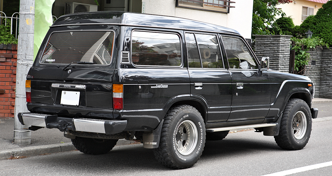 Toyota Land Cruiser 60 latter type 4.0 Diesel GX ( HJ60V )